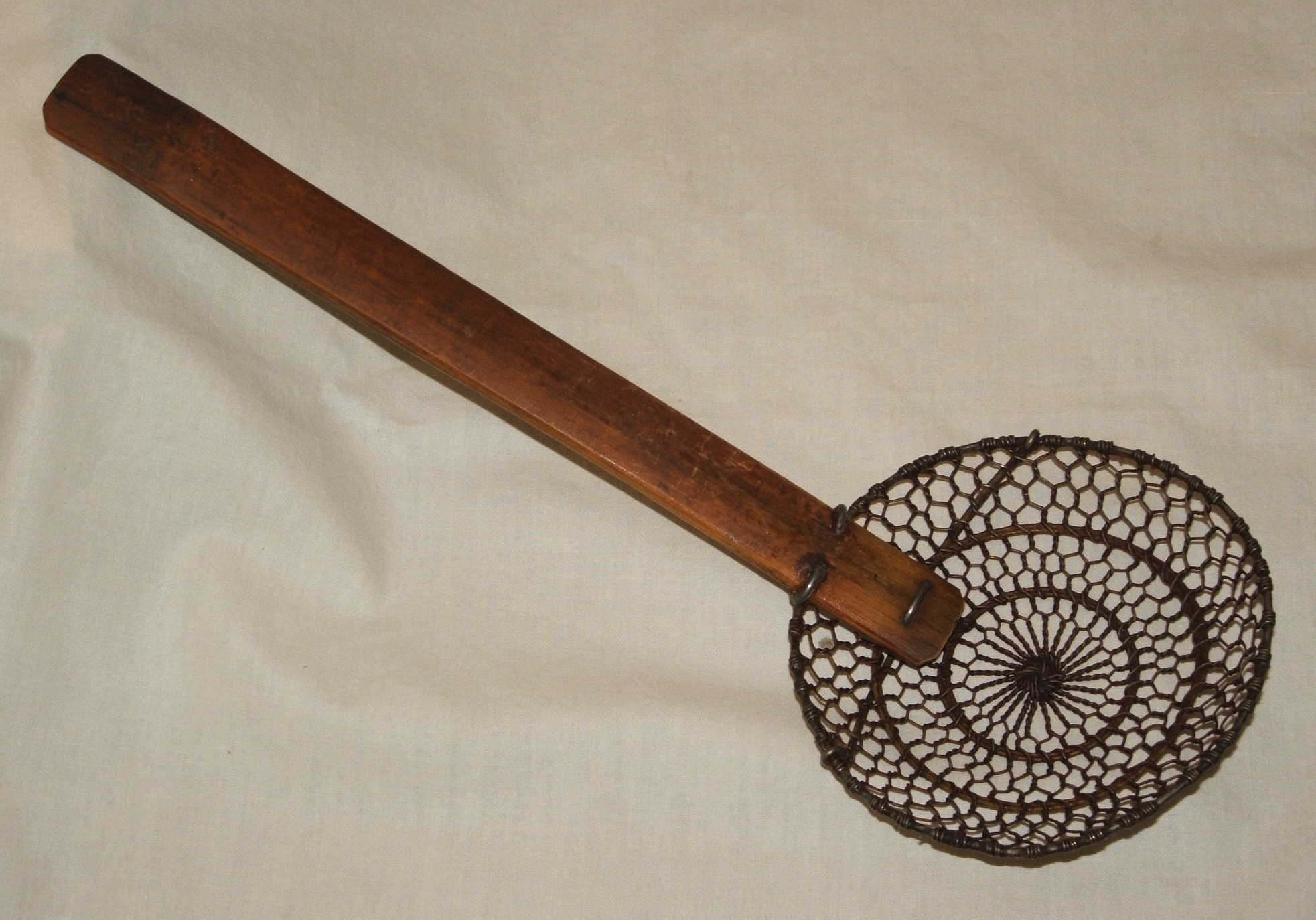 Spider - a Chinese cooking utensil, used for retrieving and draining food cooked in oil or or water